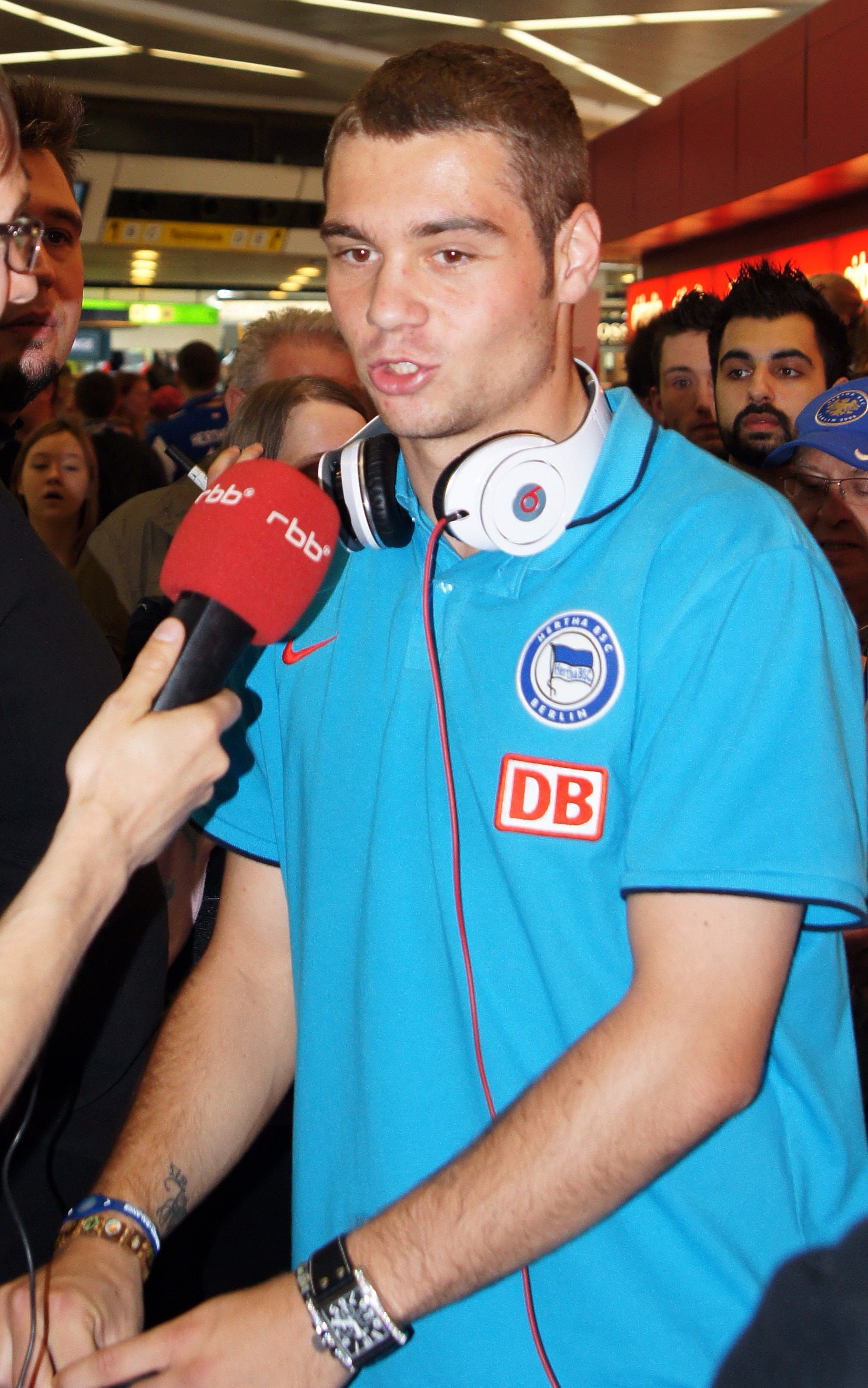 Pierre-Michel Lasogga